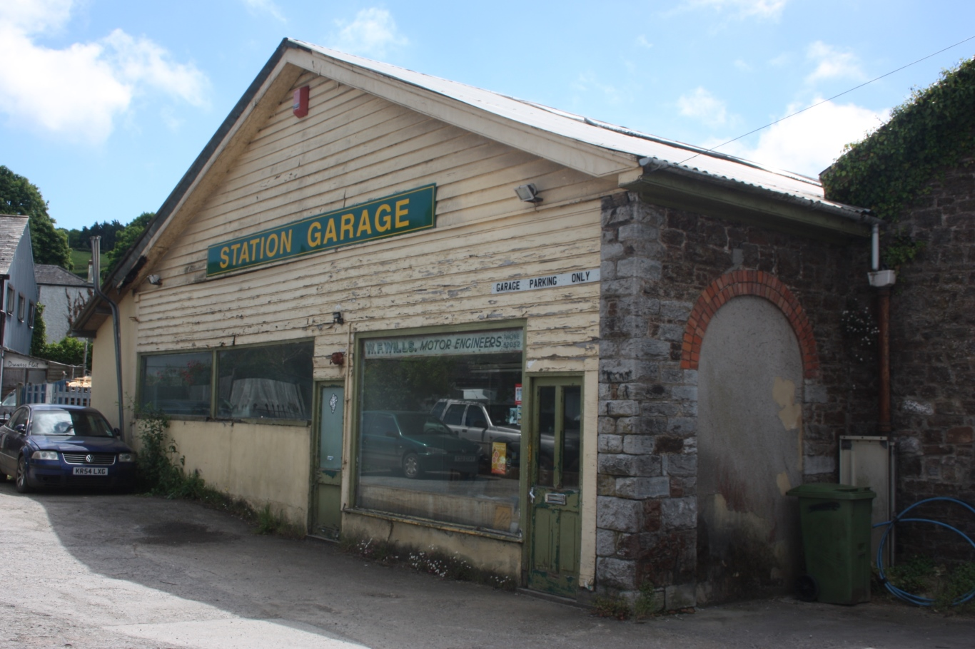 The old railway station at Ashburton in Devon is now a garage. This picture shows the buffer stop end of the old train shed.